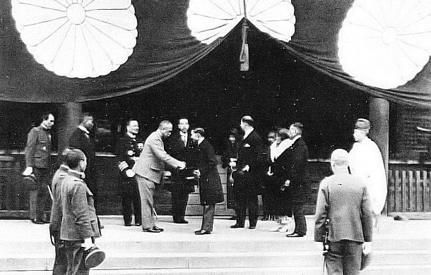 King Rama VII and his suite visit to the Yasukuni Shrine